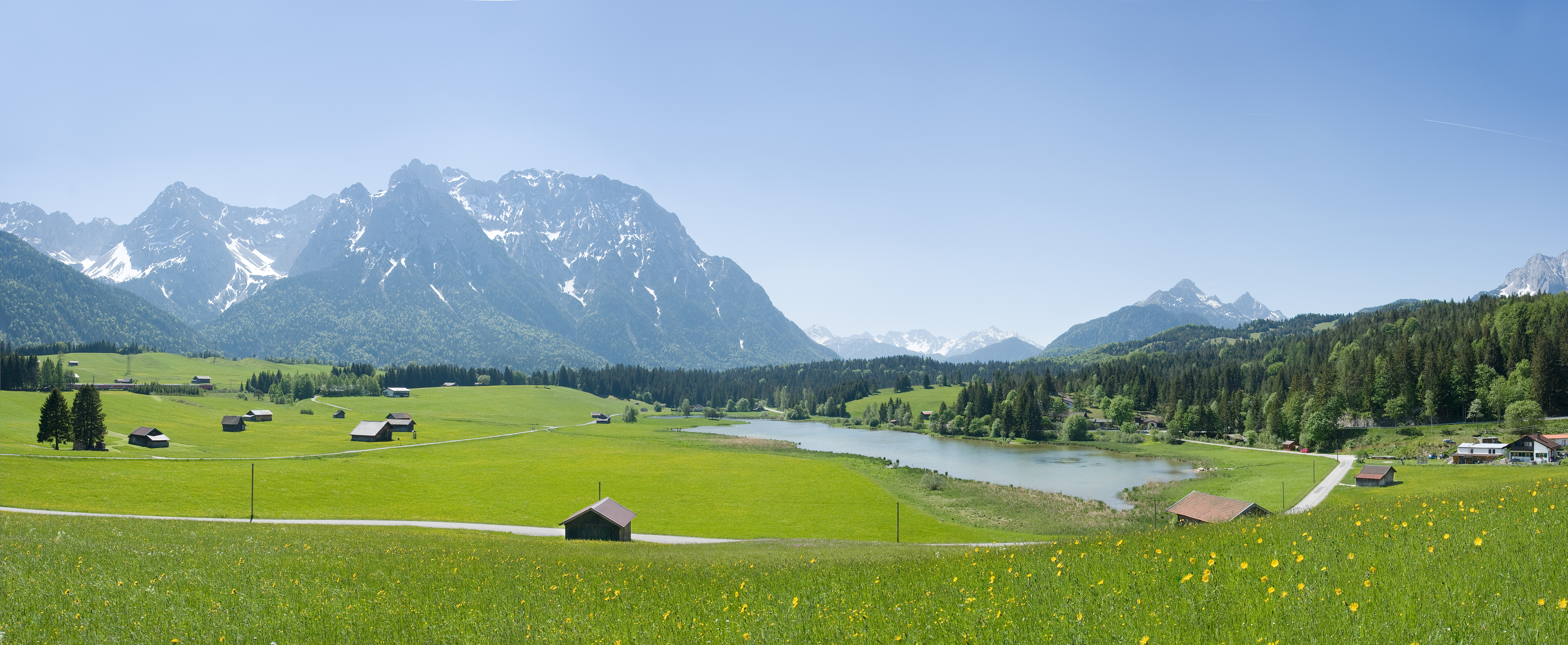 Schmalensee, Mittenwald, Bavaria, Germany